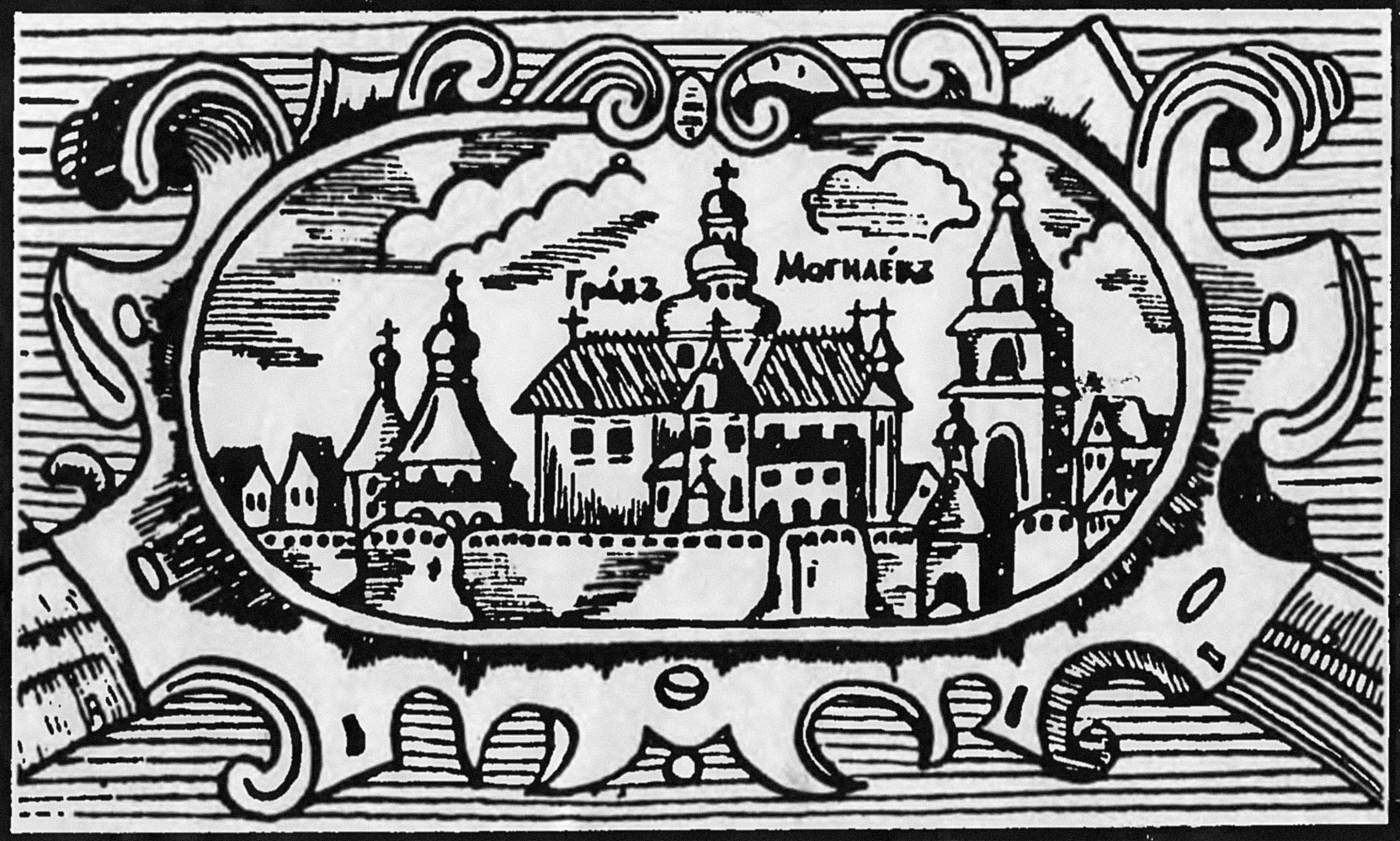 Mahiloŭ